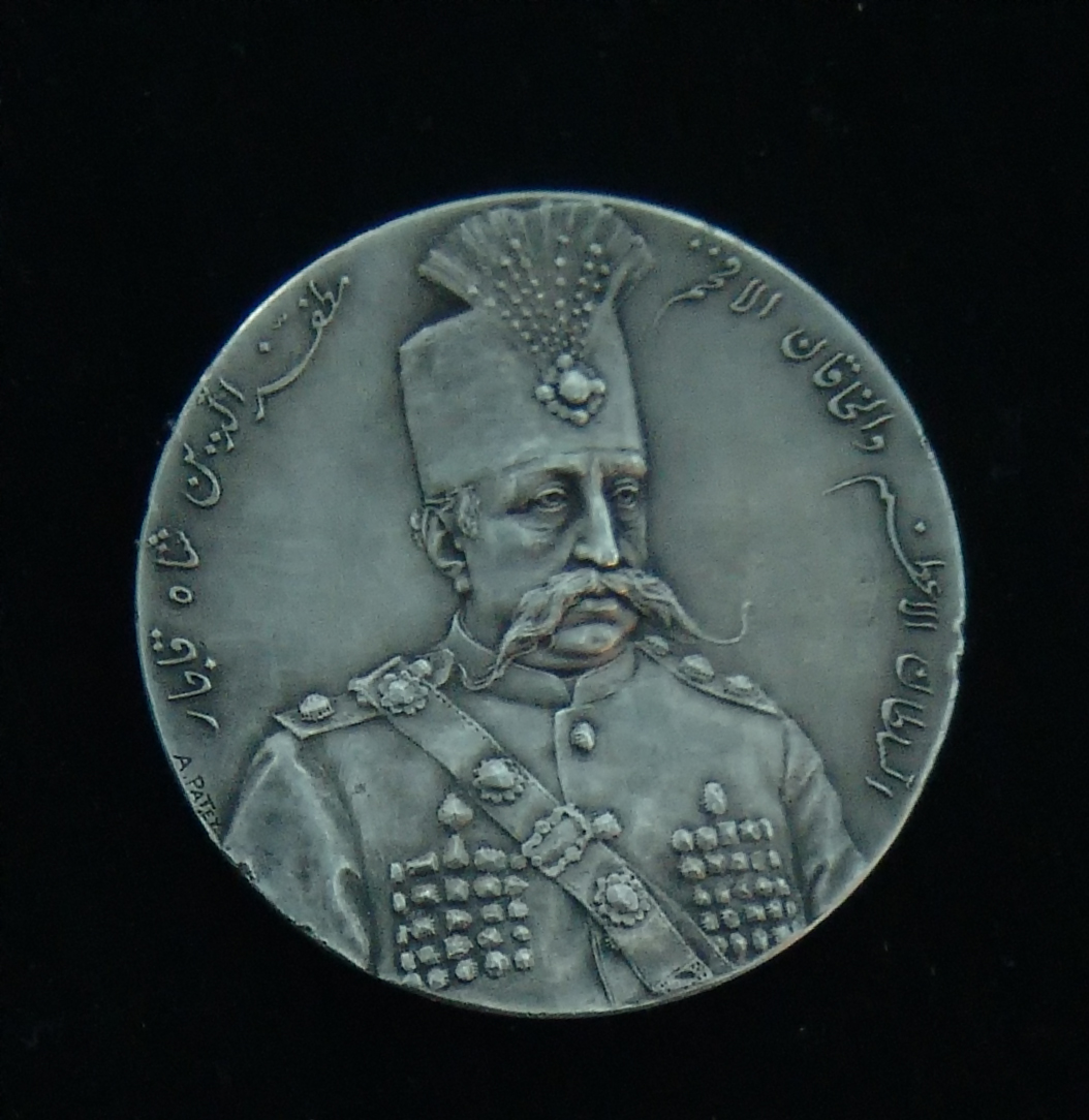 Coin of Mozafarodin Shah In Malik National Museum of Iran